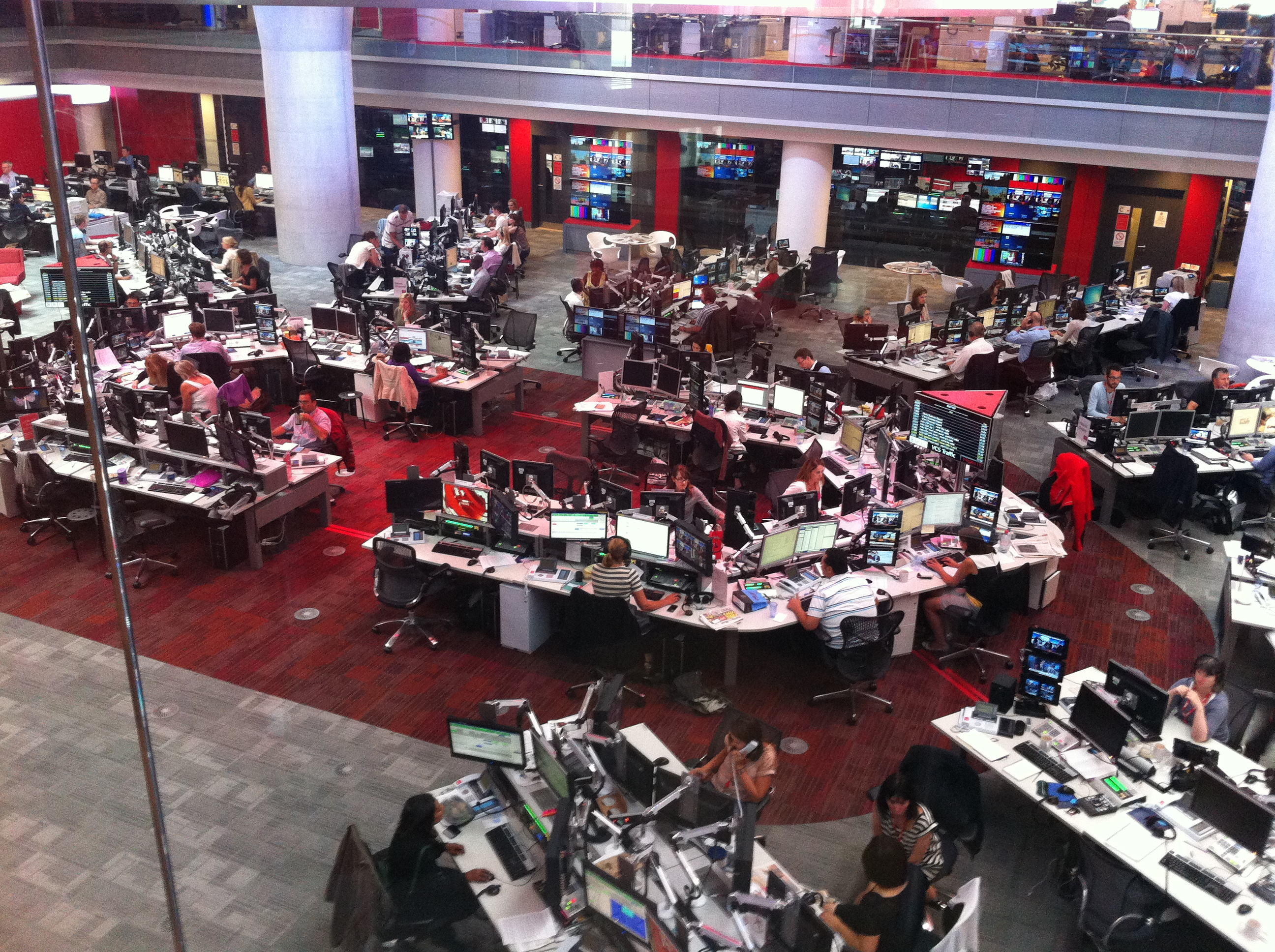 The BBC News Room.